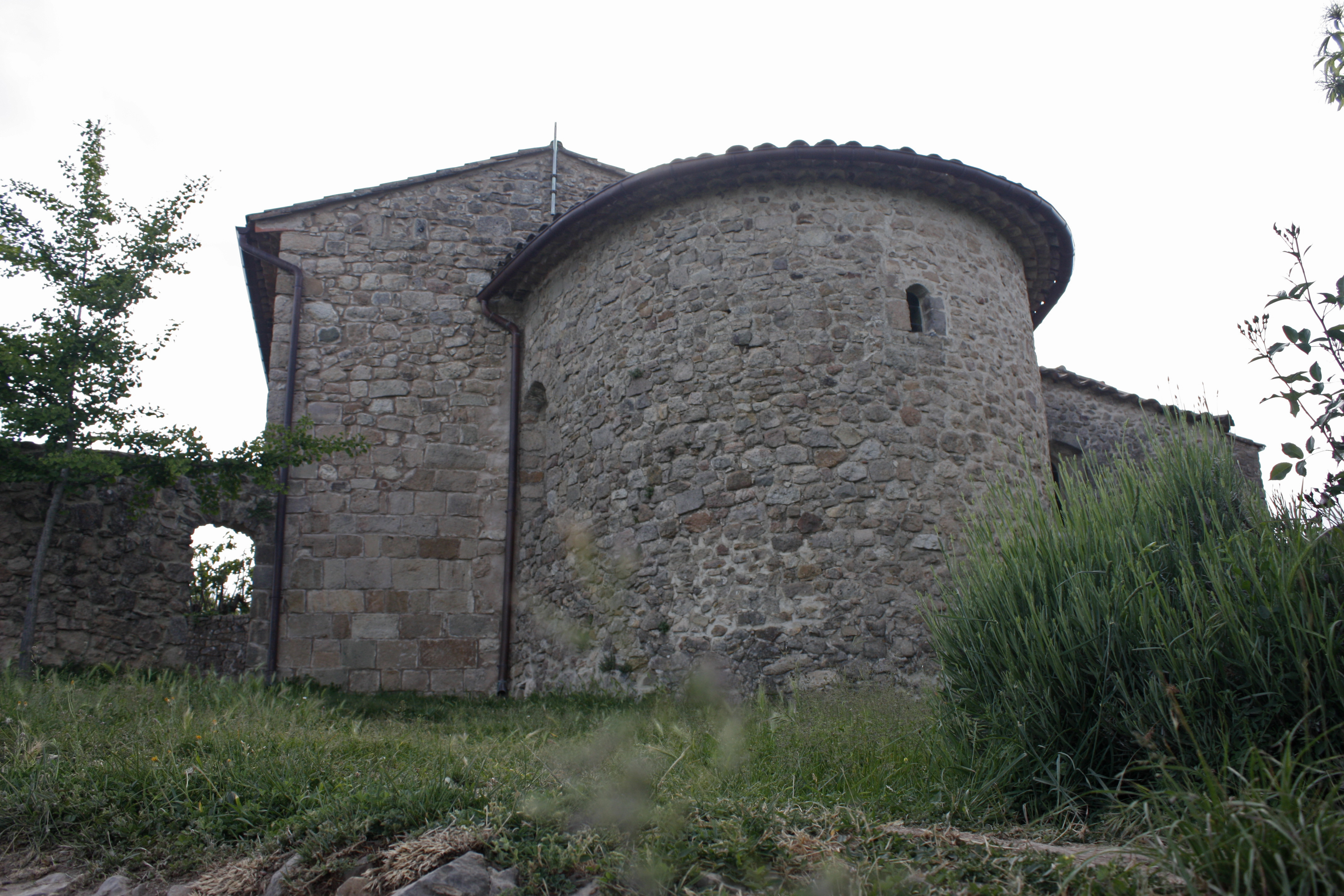 The Chapel going on renovation is now a Calvinist temple.